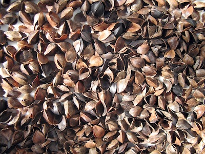 Buckwheat hulls, close up.